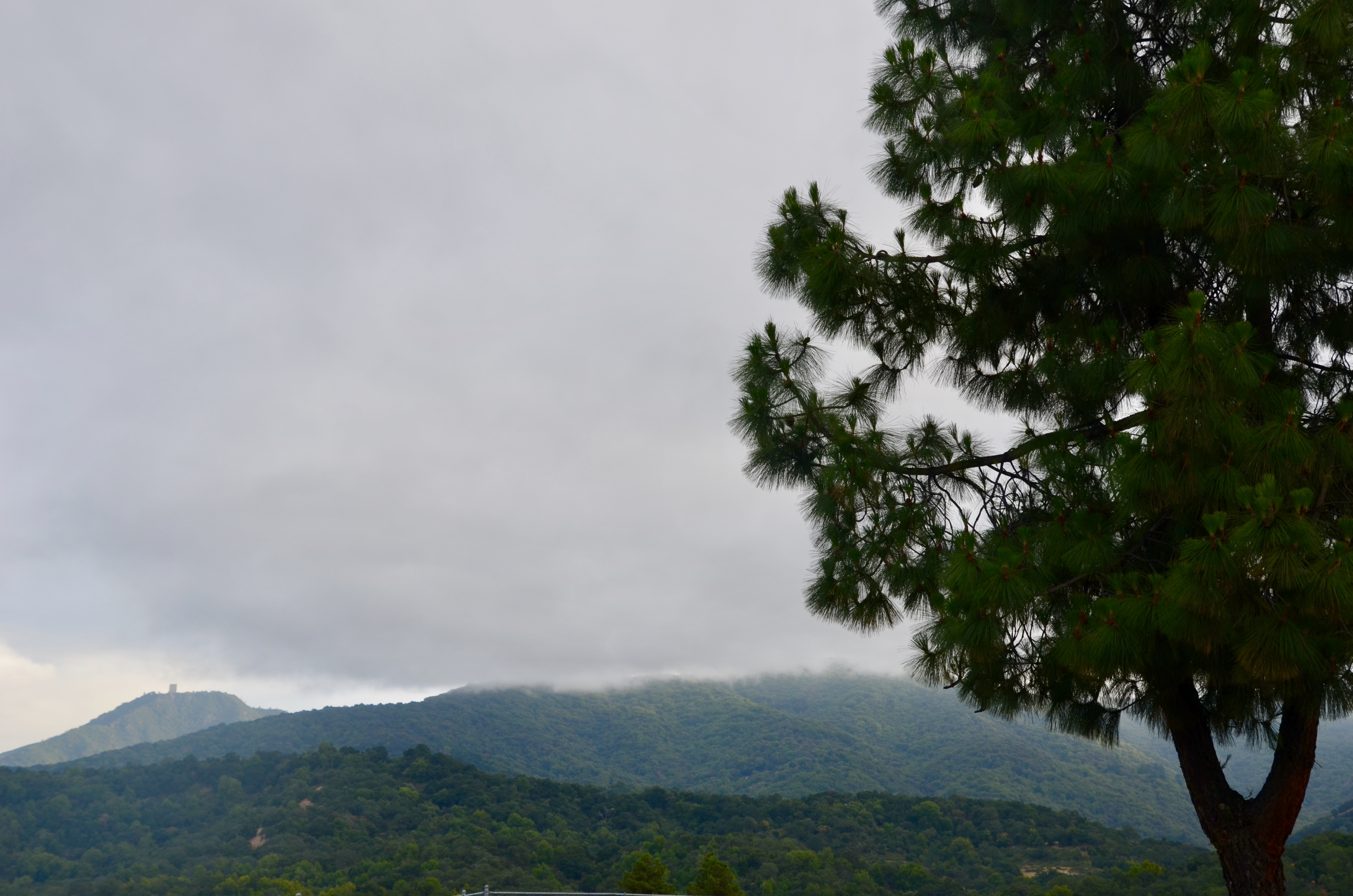 view of Mt Umunhum and other mountains from Parma Park, Almaden